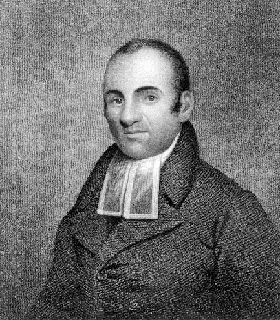 Portrait of Lemuel Haynes